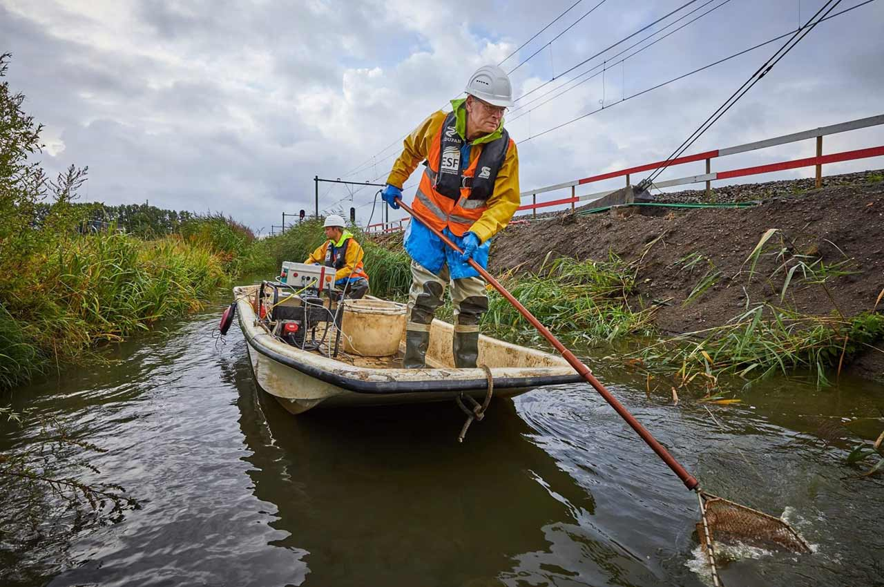 Typical Dutch method of electrofishing with gasoline aggregate, seperate control box and dip-net as anode.